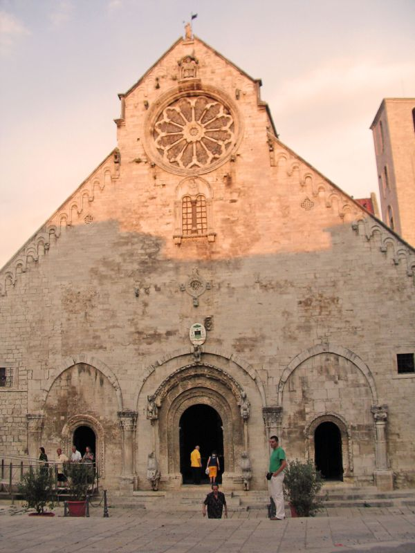 Cathedral, Ruvo di Puglia, Apulia, Italy